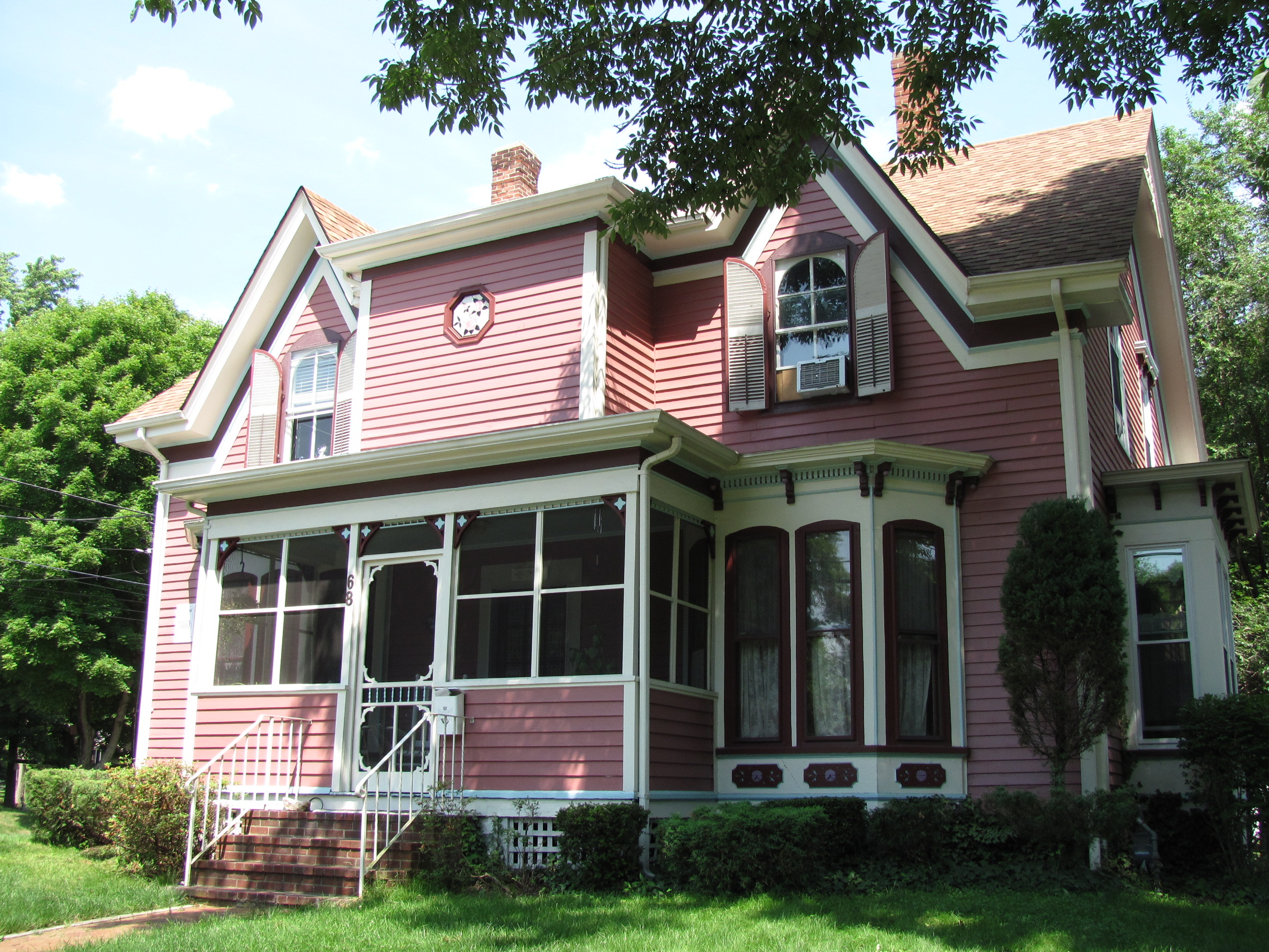 Henry E. and Abigail Arnold House, Attleborough Falls Massachusetts